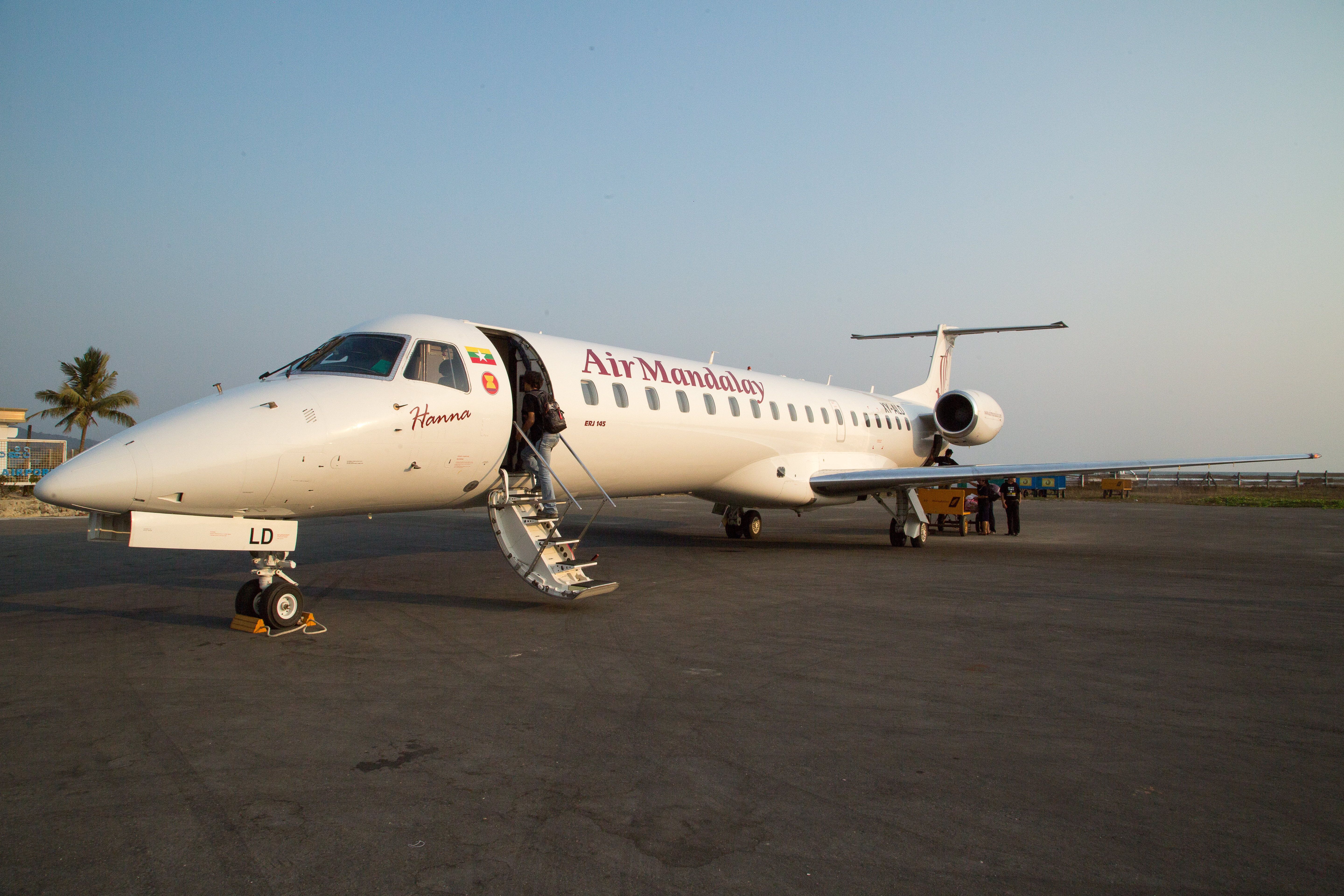 Air Mandalay ERJ145 Jet Plane